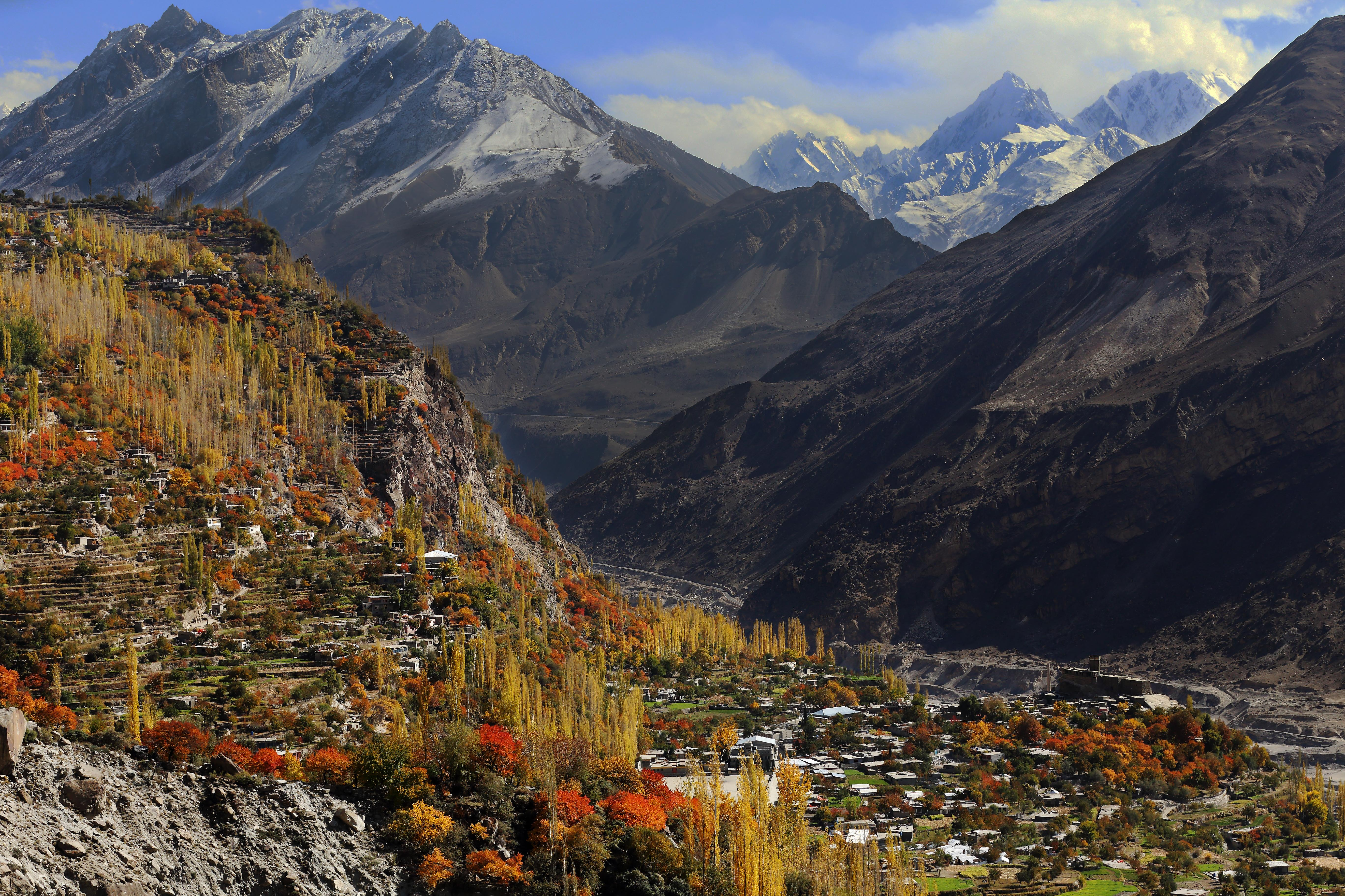 A view of back side of Hunza Valley